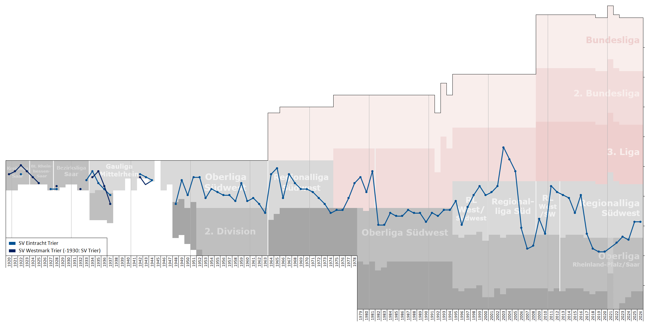 Chart of end-season table positions of Eitracht Trier in the football league system of Germany. Data source: RSSSF, wikipedia, f-archiv.de, fussball.de